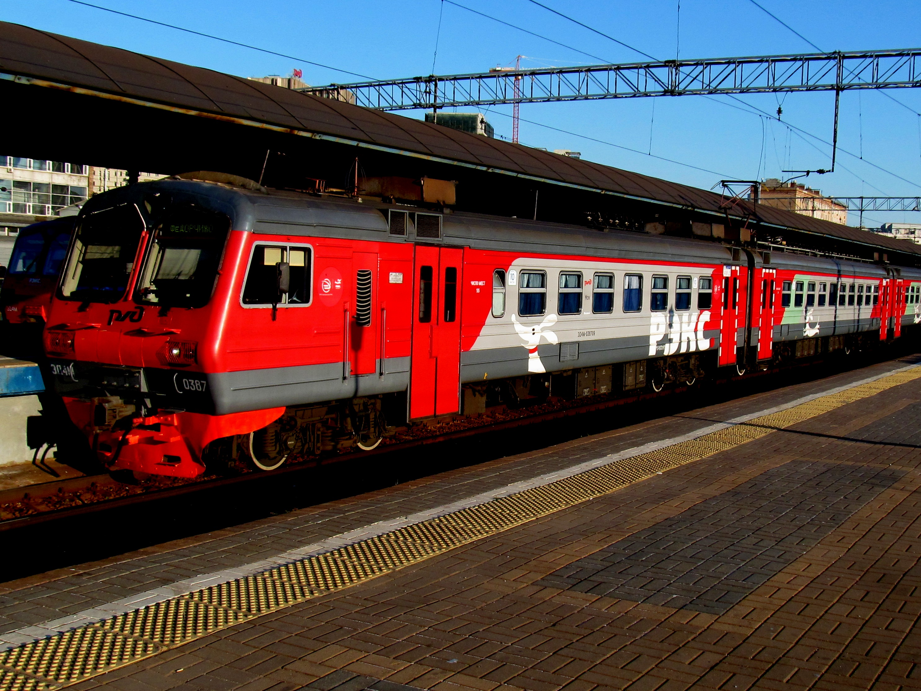 ED4M-0387 EMU in combined RZD "Ekopoezd" and REKS livery at Moscow-Passenger-Yaroslavskaya station